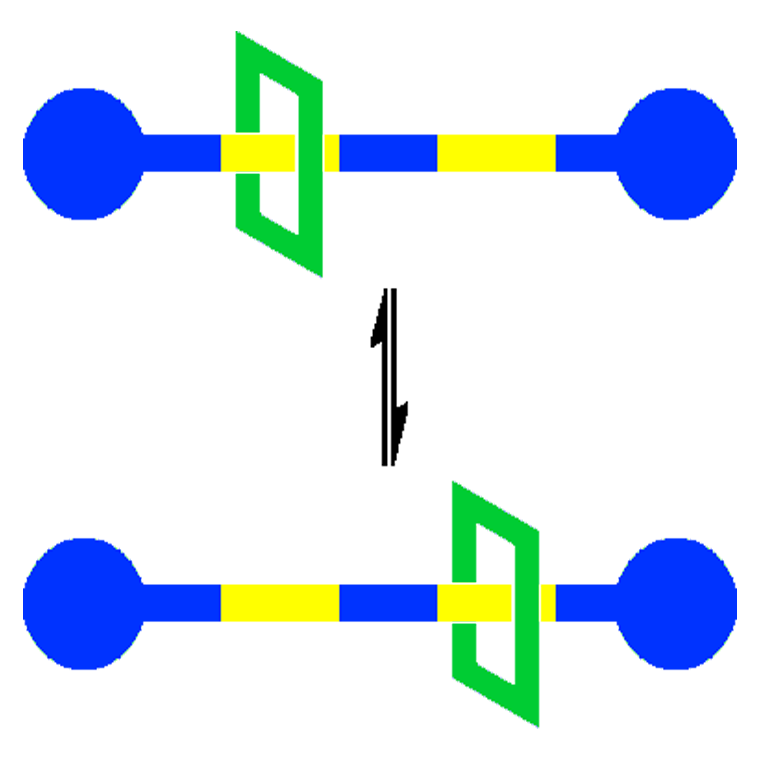 Illustration of a molecular shuttle. The macrocycle (green) moves between two stations (yellow). The macrocycle is prevented from slipping off the molecule completely by the stoppers that trap it as a rotaxane. Made by me using Photoshop and free for all to use.